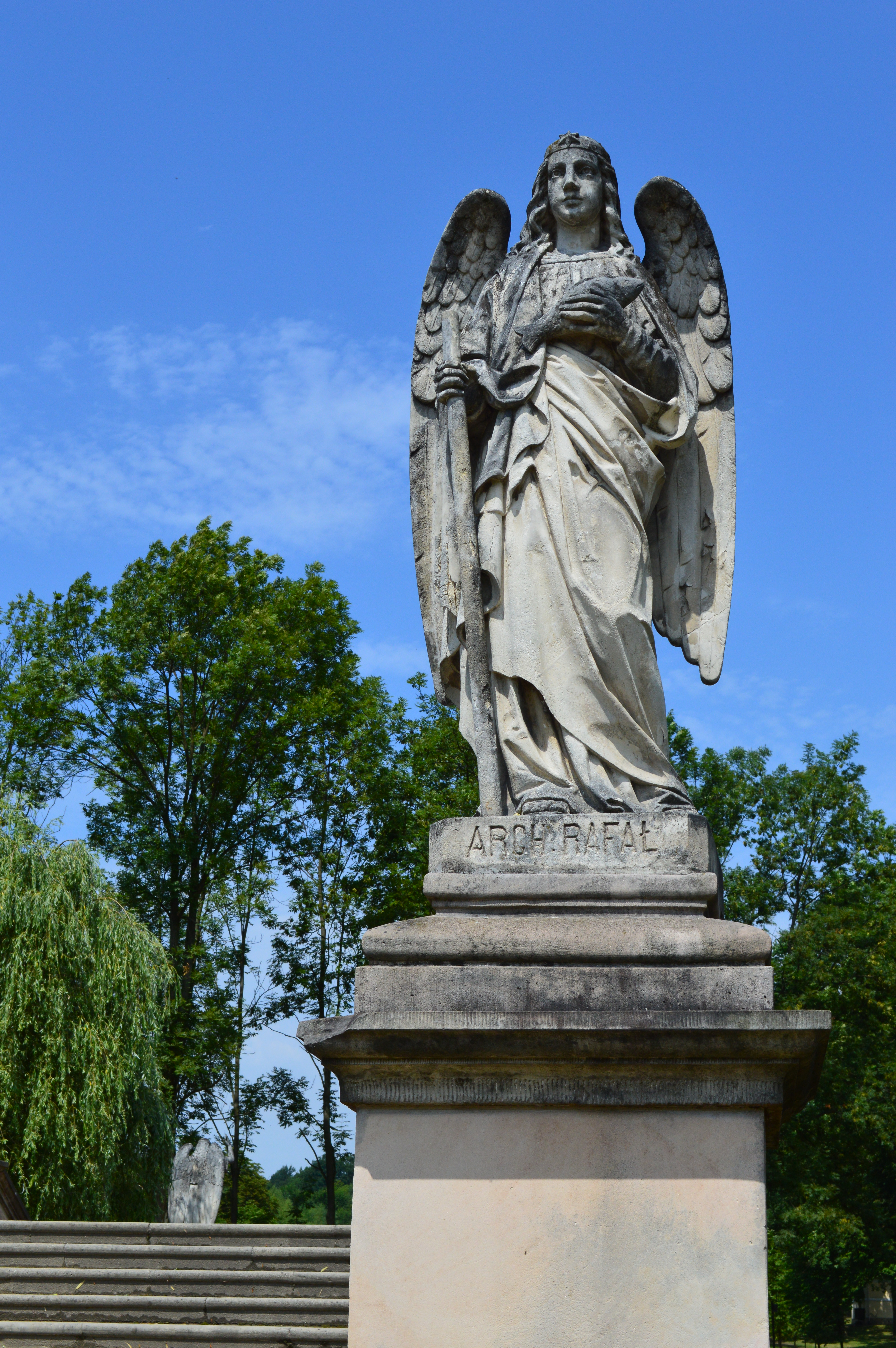 Archangel Raphael (Rafał) on the 'Roman Bridge' near Brody and Kalwaria Zebrzydowska.